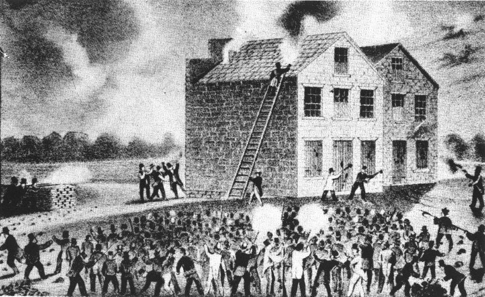 Wood engraving of proslavery riot in Alton, Illinois on November 7, 1837, which resulted in the murder of Elijah P. Lovejoy